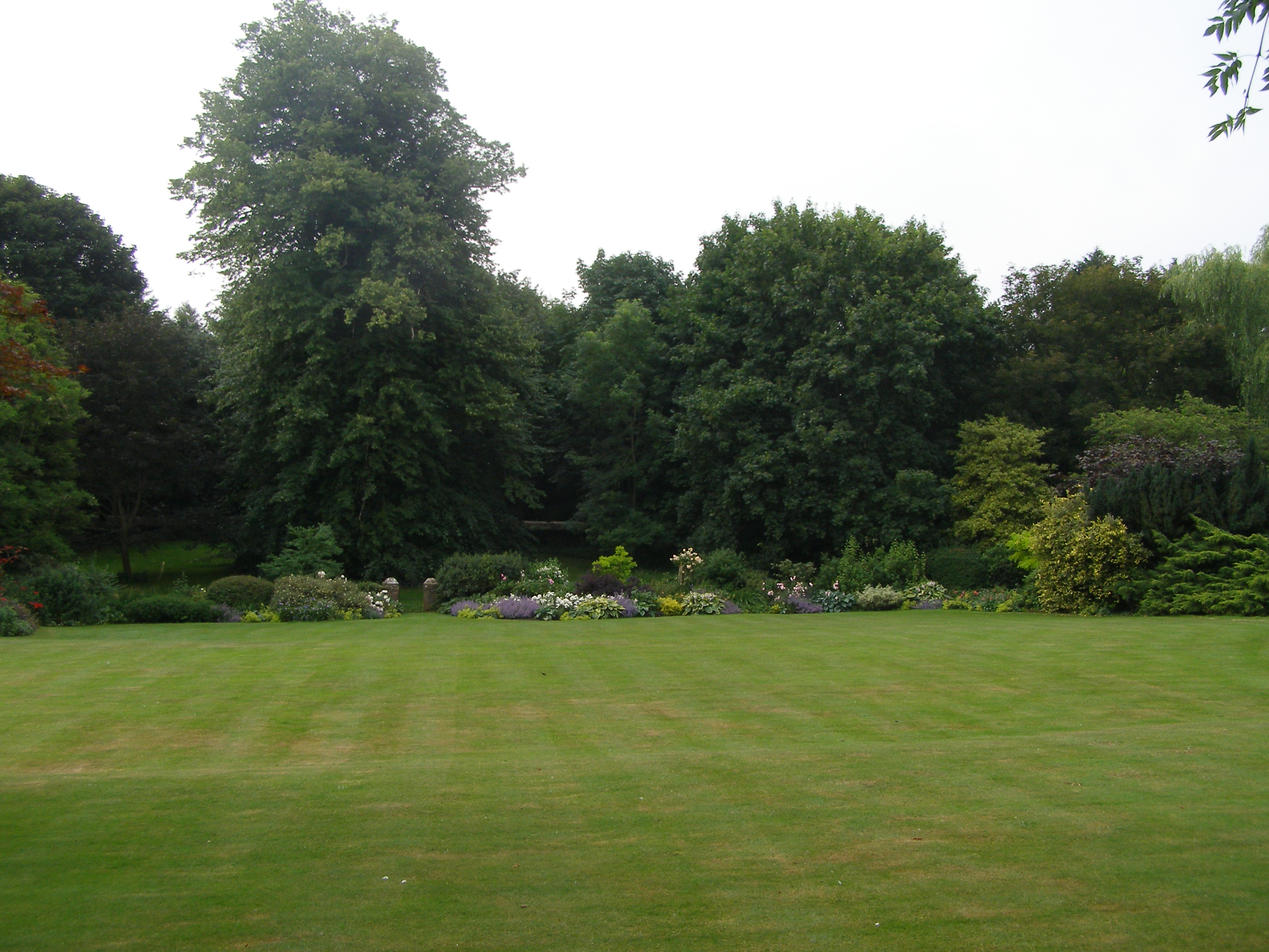 photo taken July 2006 photo subject=beverston castle garden